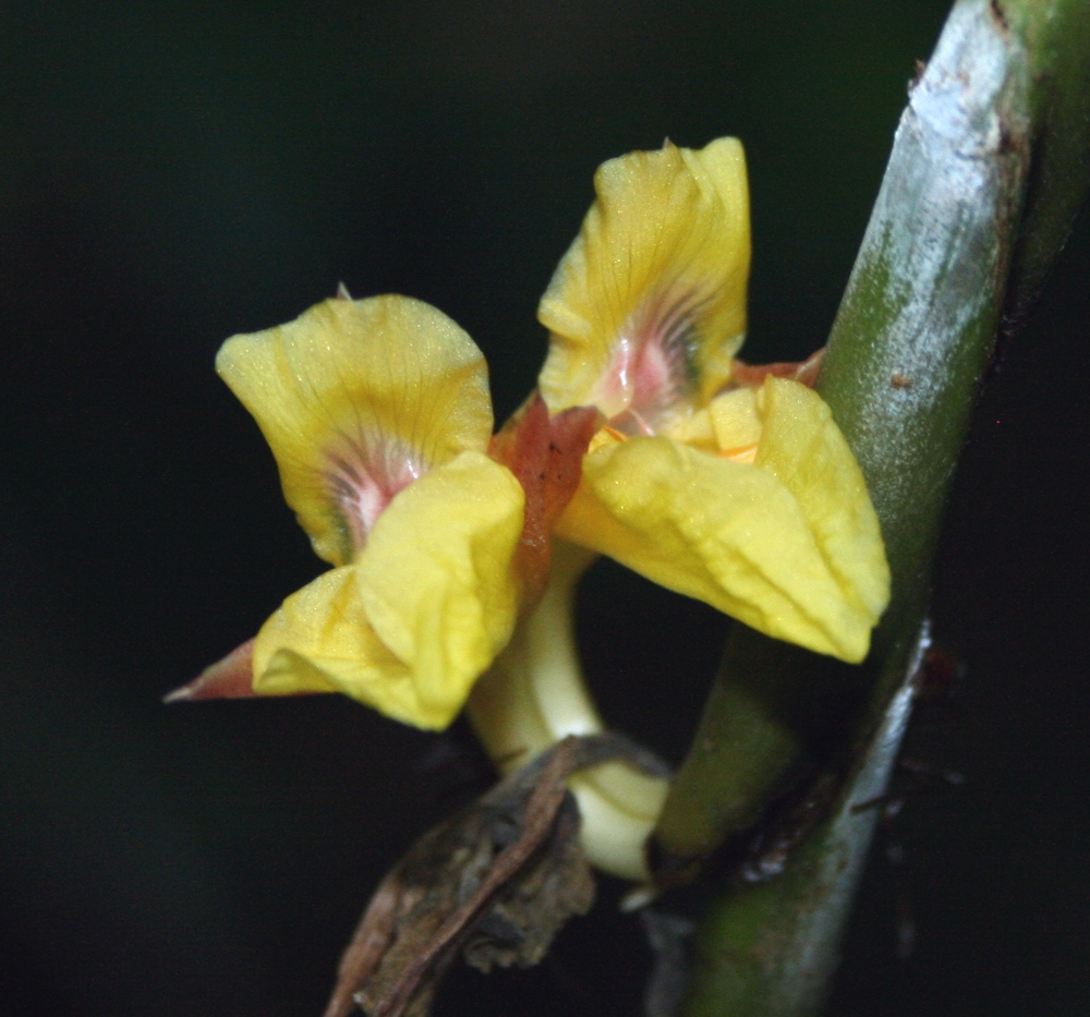 Flowers of Ischnosiphon obliquus, Rio Tabaro, Venezuela